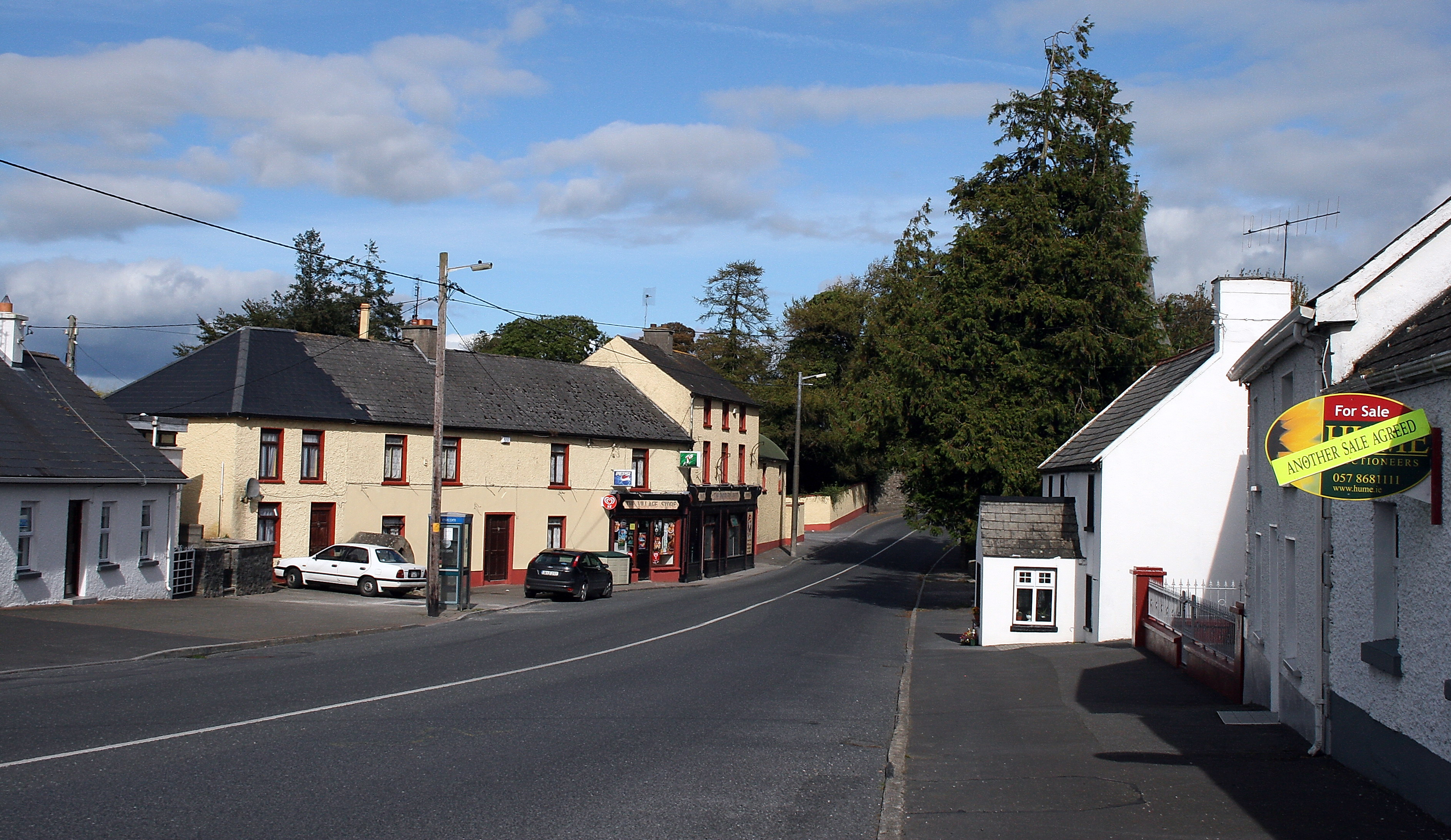 Rosenallis, County Offaly. Main Street, Rosenallis on the R422.